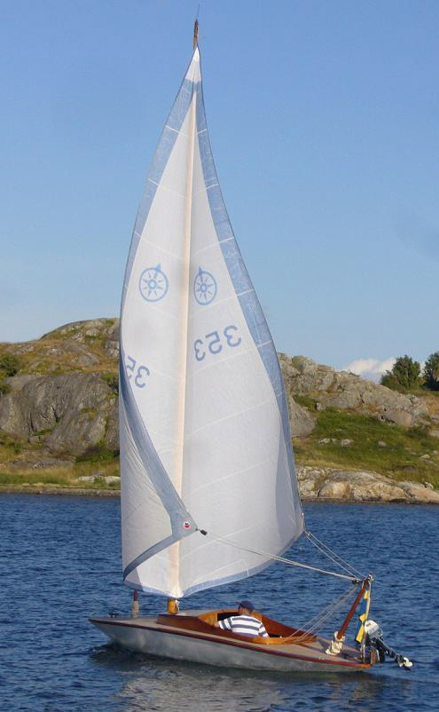 Ljungströmaren Vingen 10 2010-1b